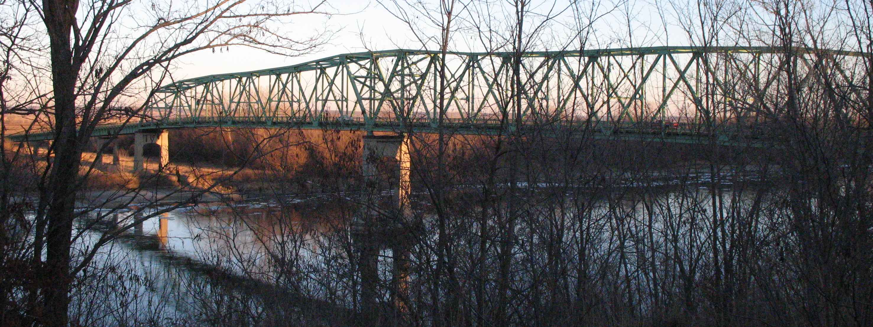 Brownville Bridge from the north on the Nebraska side. Photo by poster in December 2006.